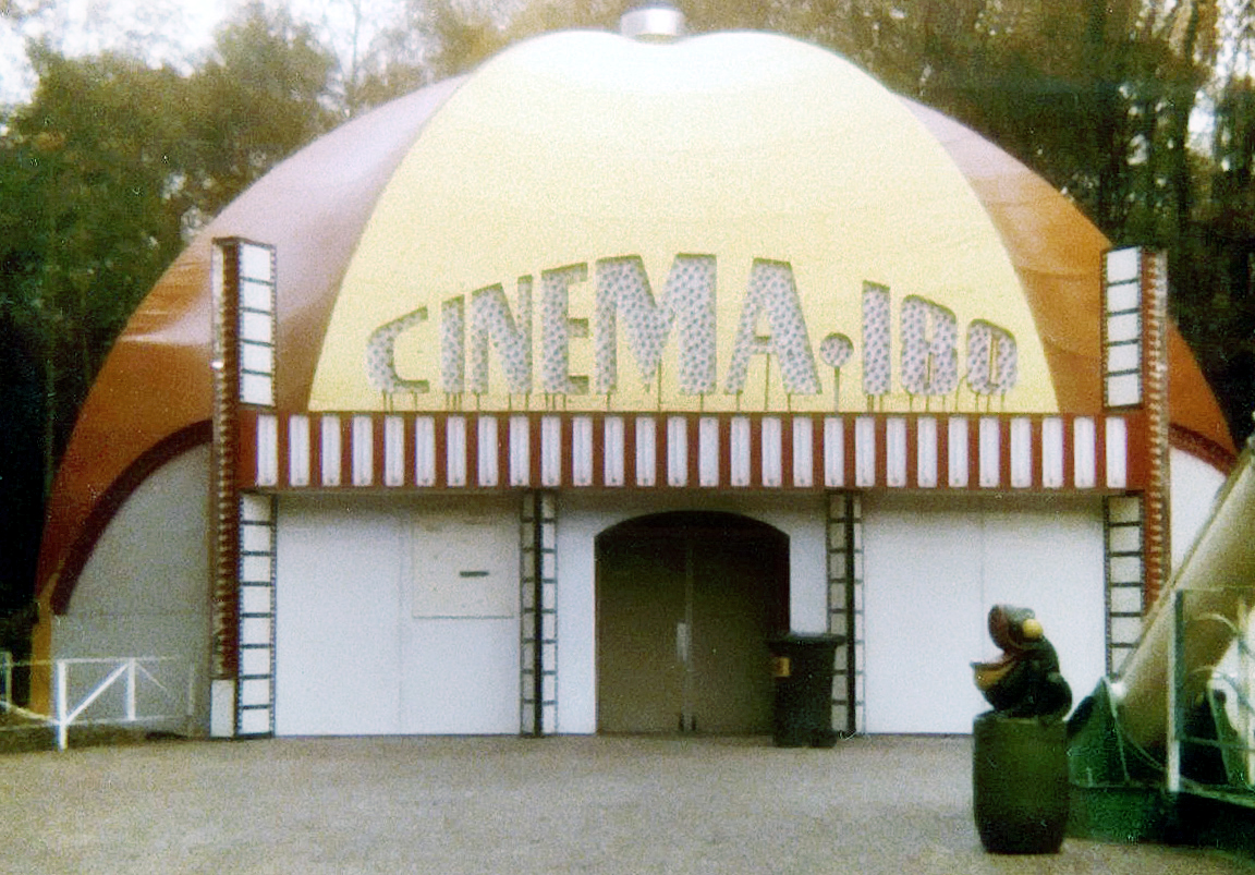 180 Grad Kino, Traumlandpark, Bottrop, Germany